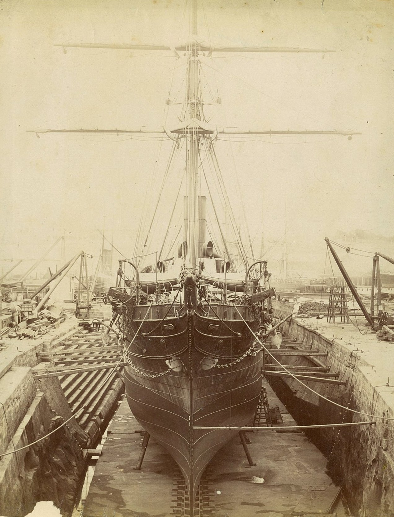 Liner Dupleix of the Messageries Maritimes. See Dupleix. She was renamed Jubilee in 1888. (Original legend: French corvette Dupleix in dry dock, Cockatoo Island (?), Sydney)